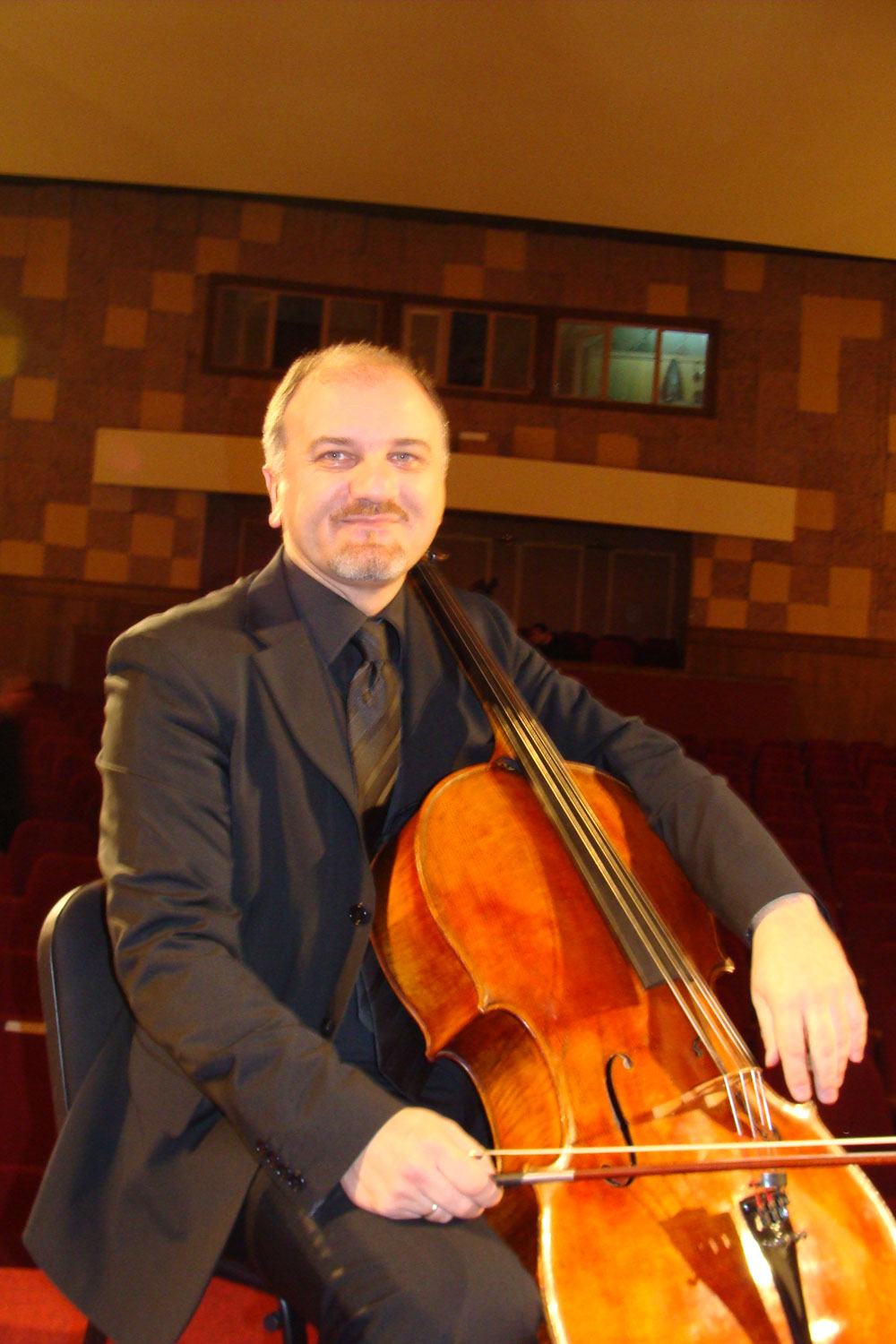 Prof. Antonio Gashi - Violonçelist